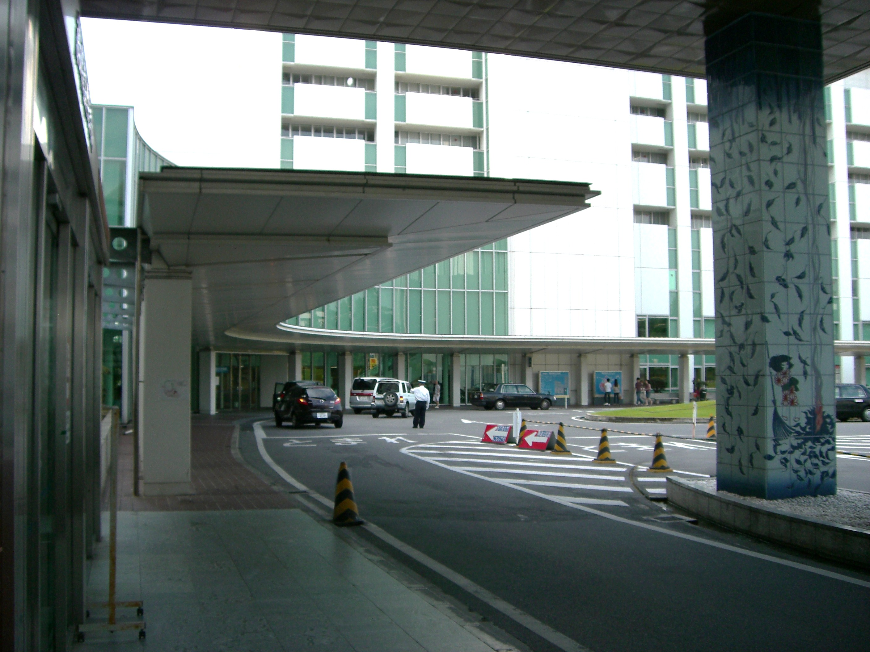 fujita health university hospital south entrance